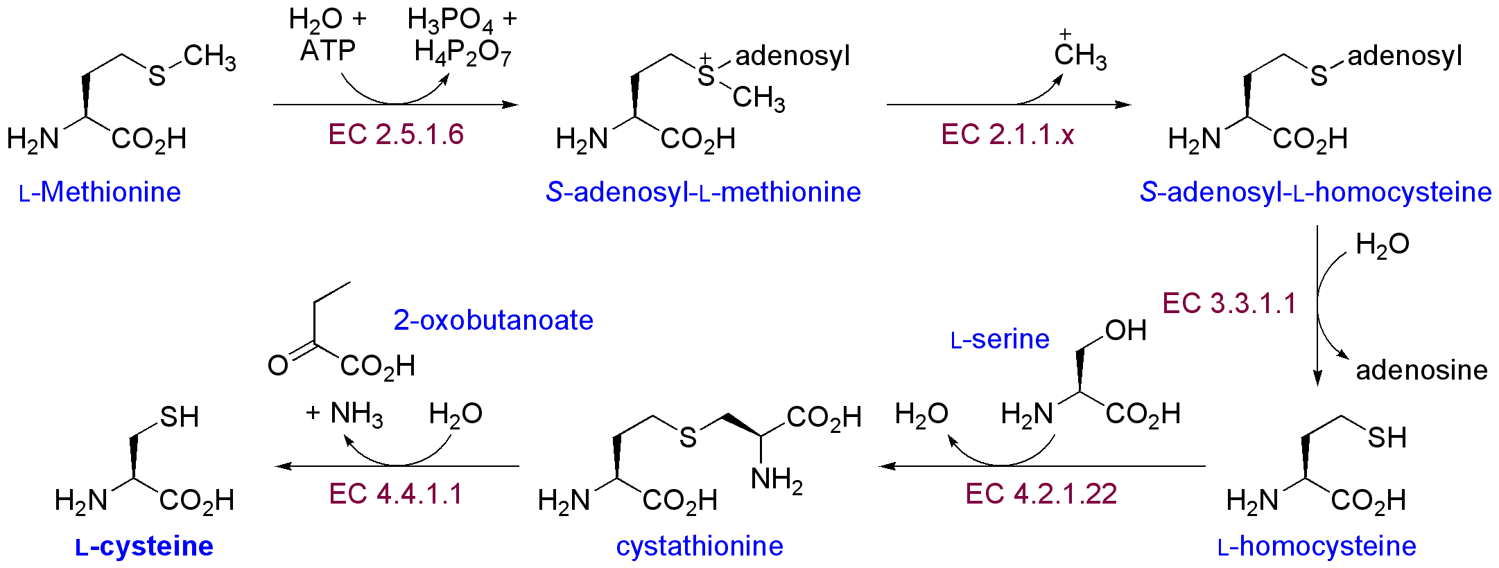 Biosynthesis of Cysteine.